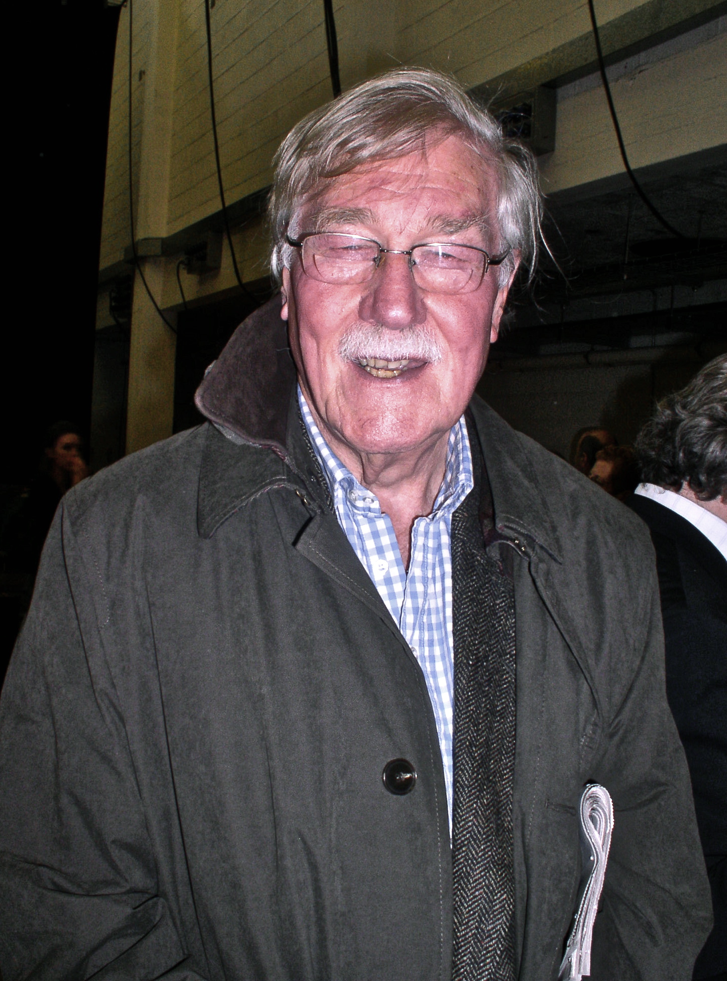 Christopher Morahan at the National Theatre Studio, 2 November 2010